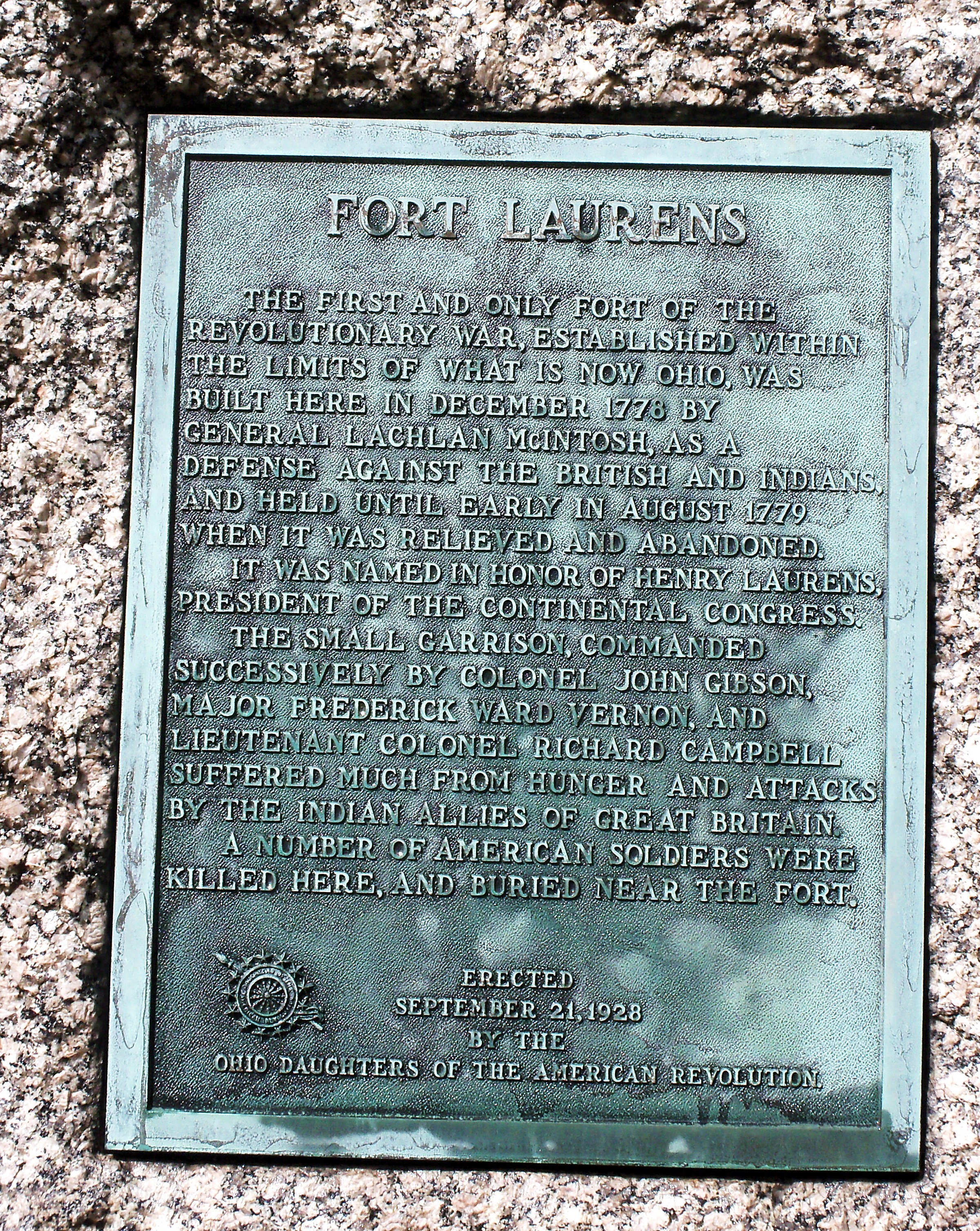 1778-1779 fort near Bolivar Ohio